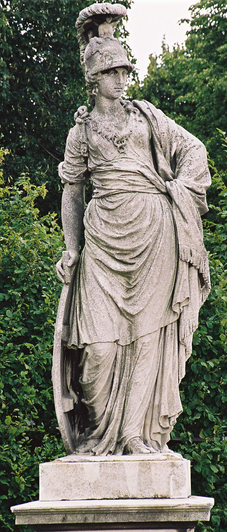 Vienna, Schönbrunn gardens, statue Aspasia as Minerva